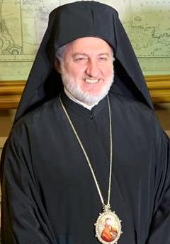 Elpidophoros, Archbishop of America in May 2019